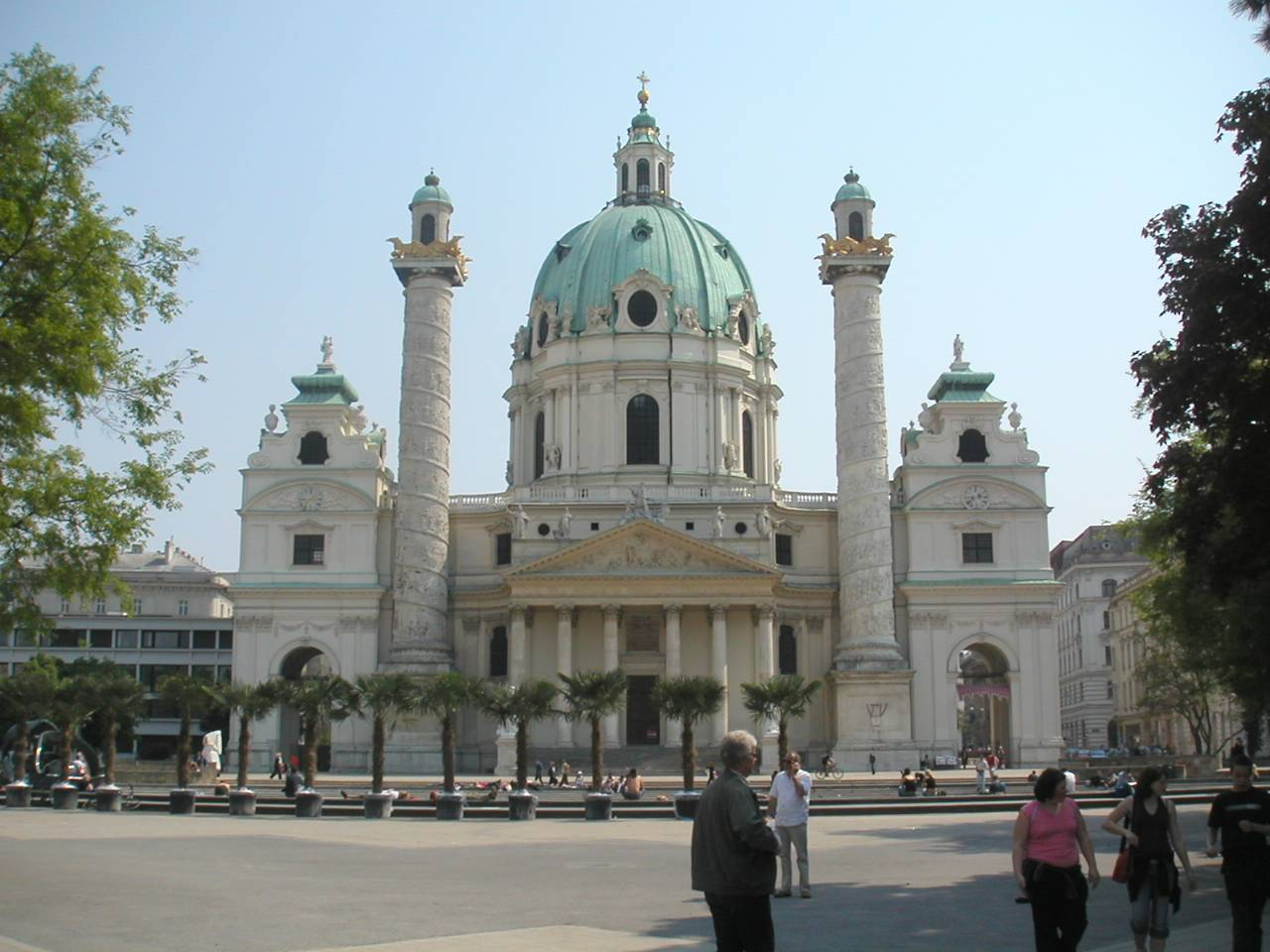 Austria, Vienna, St. Charles's Church